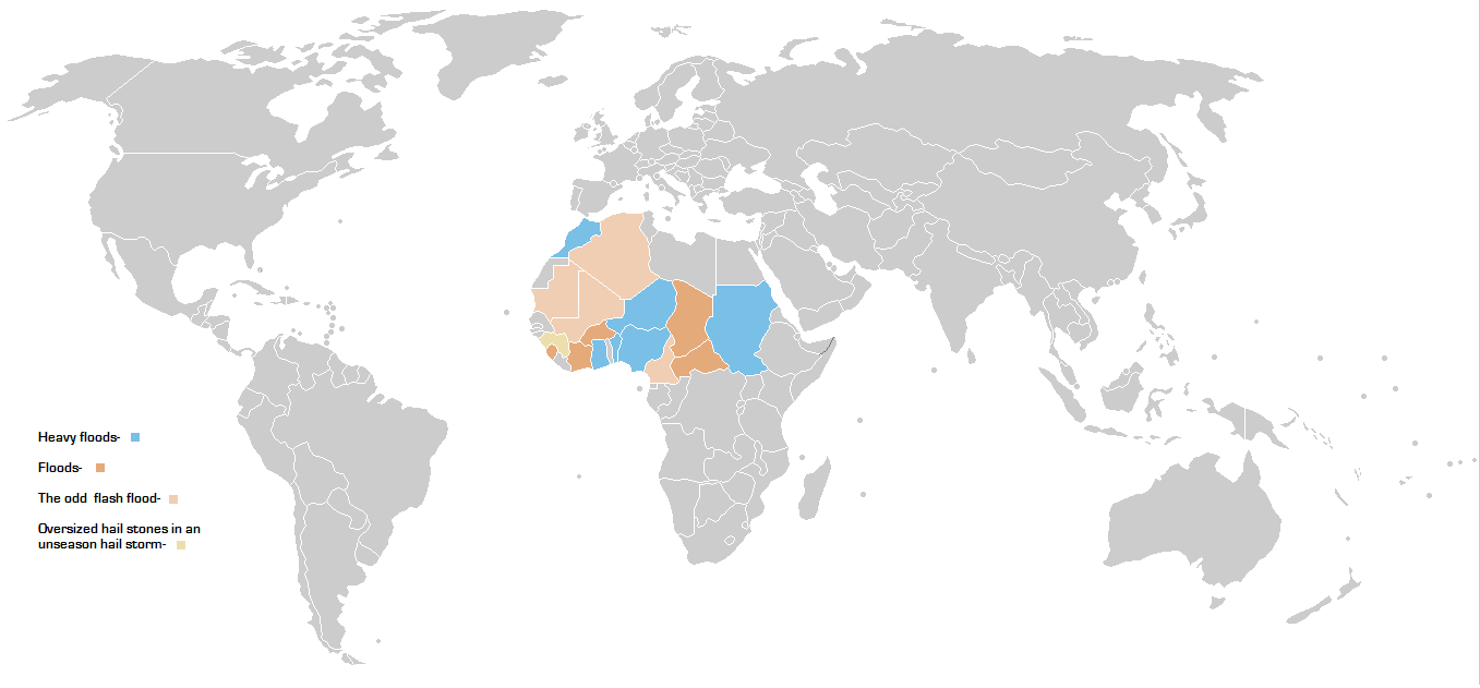 I modified a copy of the map 'File:Commonwealth games 1998 medal winners.PNG' by Commons user Roke. It shows the nations hit by the 2010 West African floods. See the key for detailes of the colour code.